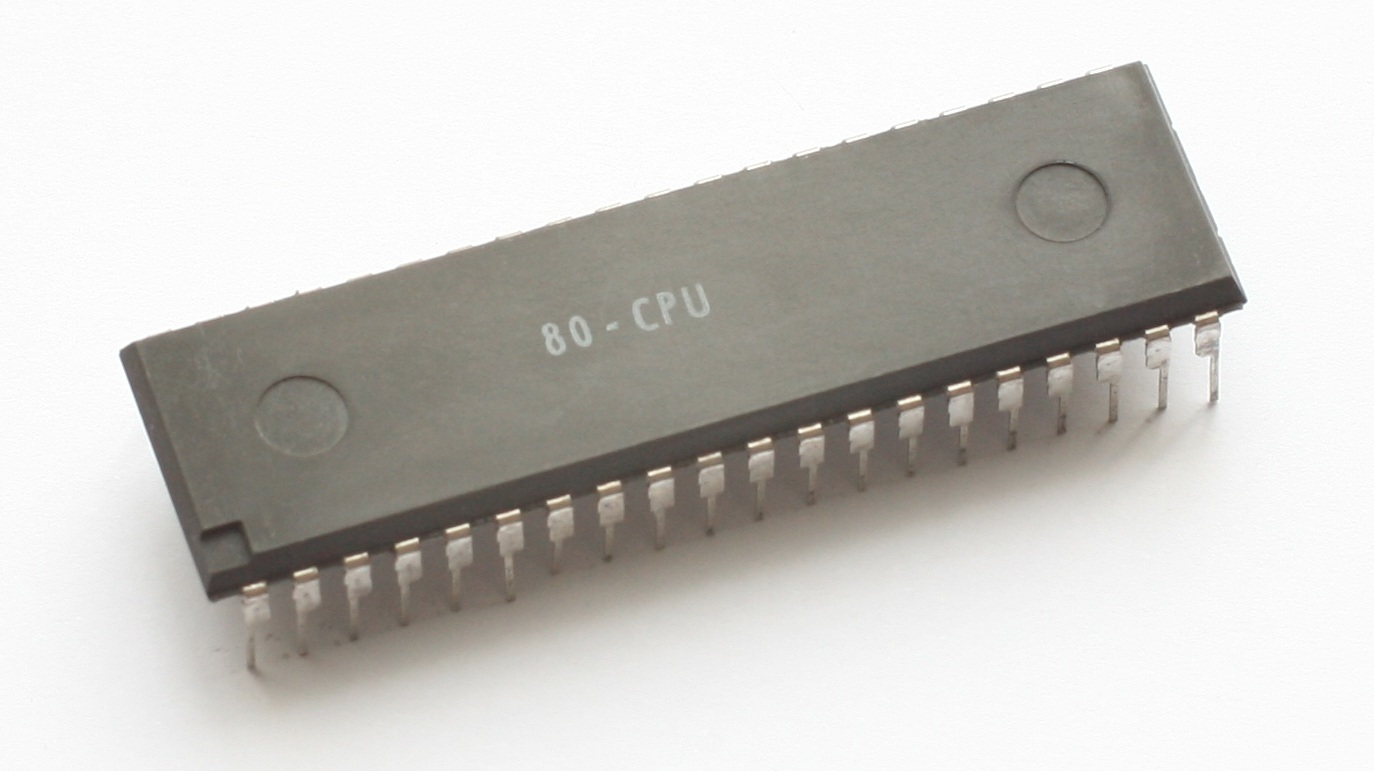 CPU MME 80-CPU (= UB880 = Zilog Z80)